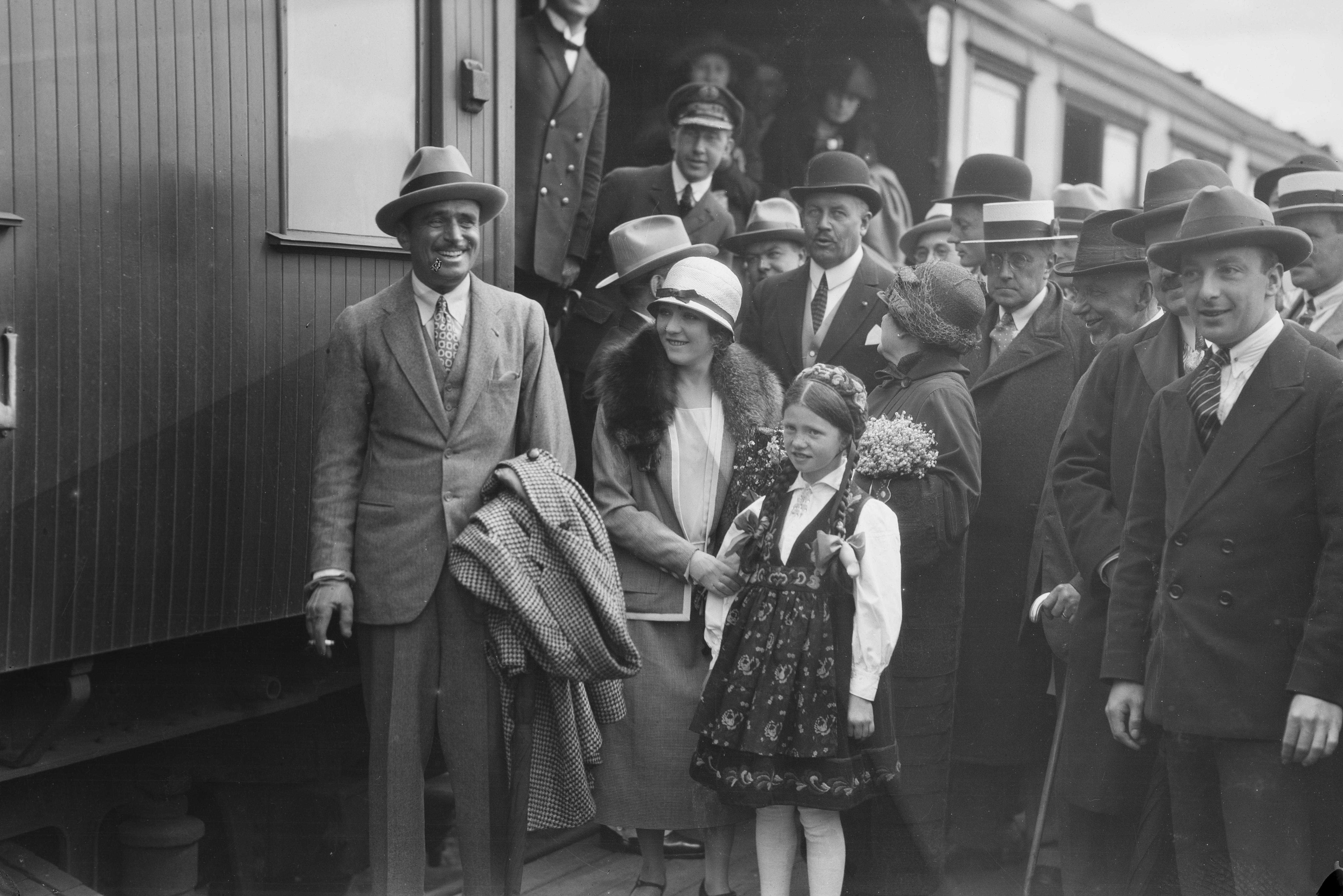 According to the Norwegian newspaper Aftenposten 1924-06-13 Douglas Fairbanks and Mary Pickford planned to visit Kristiania (Oslo) on 18th June 1924, together with Guy Croswell Smith from United Artists in Europe and "personal manager" Mc Farland. According to the newspaper's evening edition of 1924-06-24 the couple arrived Kristiania on Tuesday 24th of June. They stayed only for one day, continuing their European tour in the evening. Depicted person: Pickford, Mary Depicted person: Fairbanks, Douglas